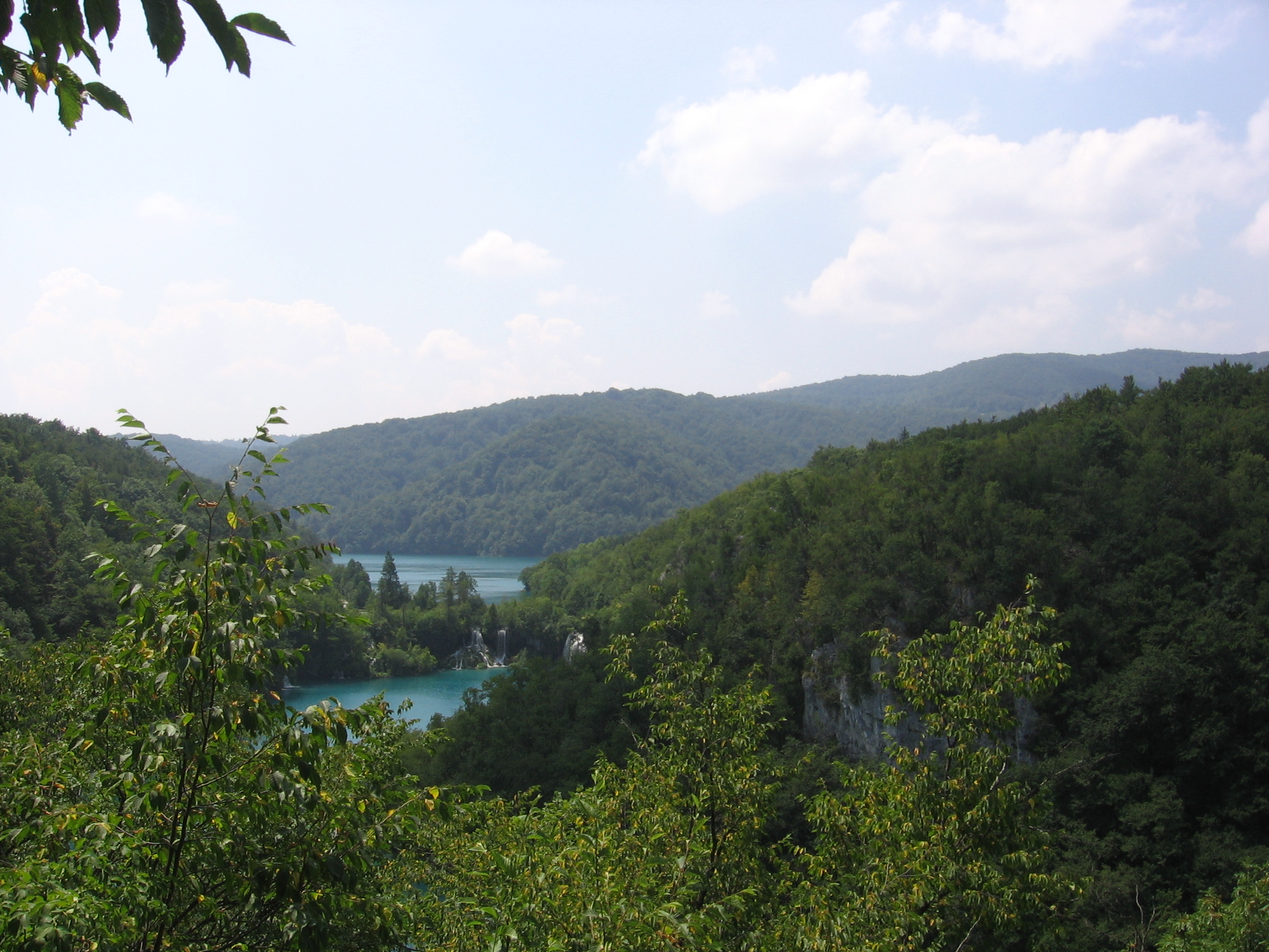 Plitvice Lakes National Park July 2006